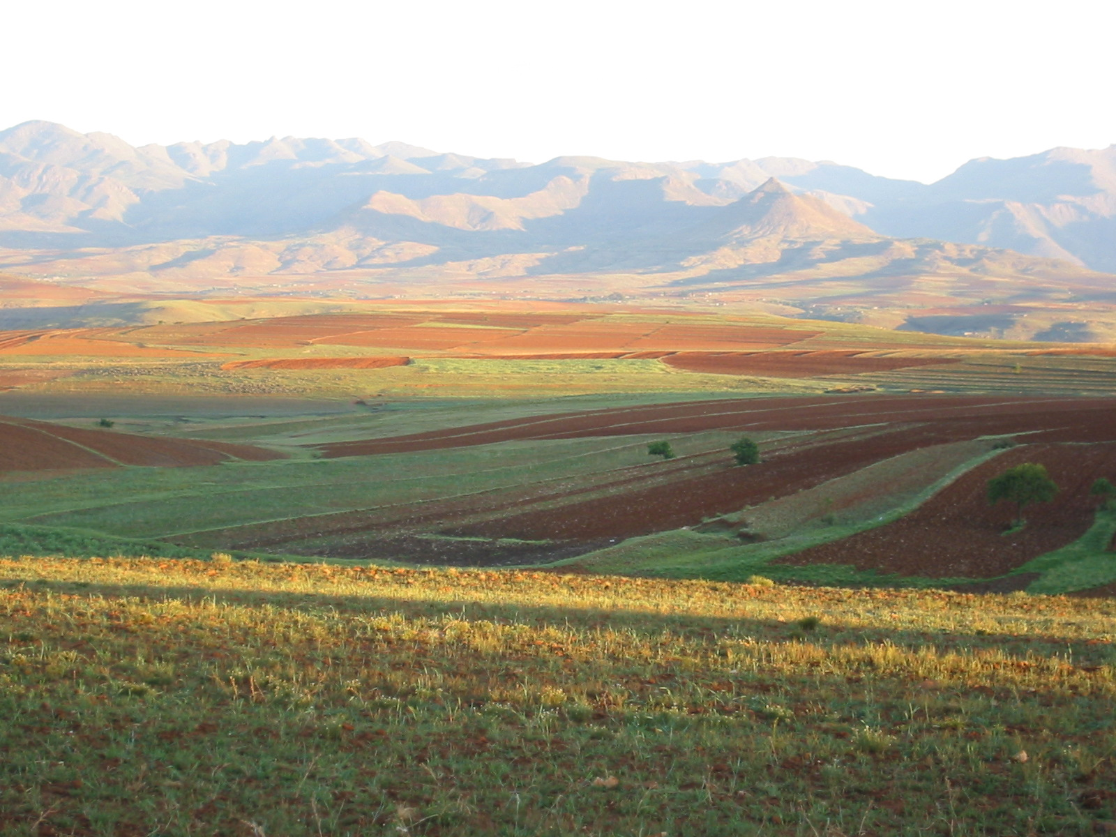 Landscape in the Mountain Kingdom: This photo was taken at a magical place called Malealea in Lesotho which is also referred to as the Kingdom in the sky or the Mountain Kingdom.